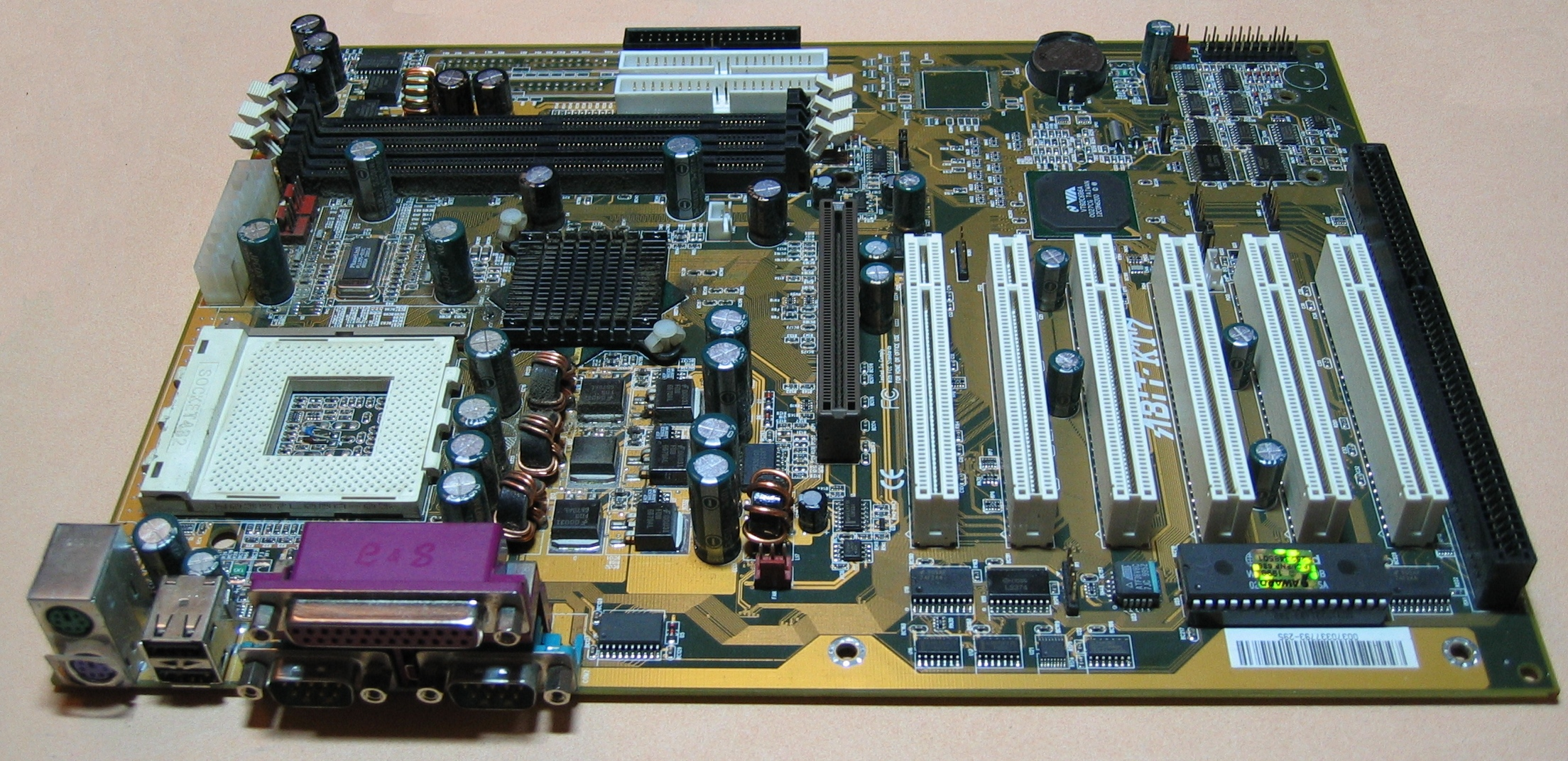 ABIT KT7 PC motherboard.